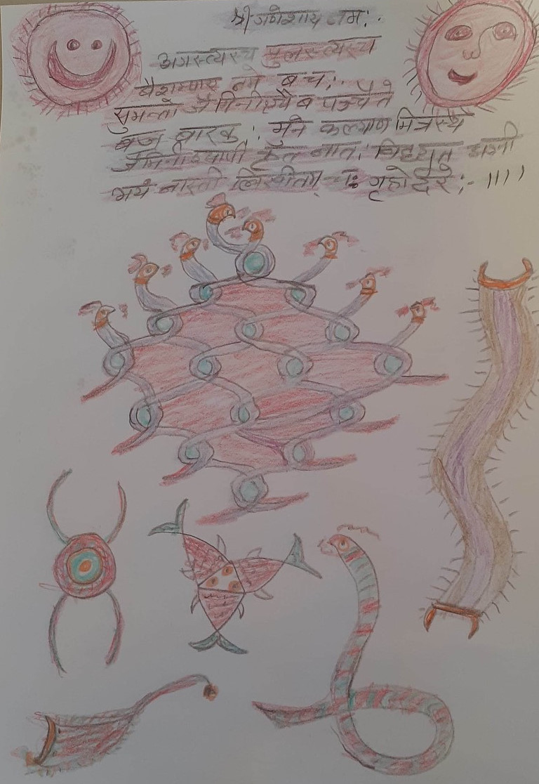 Nag Panchmi poster to be hung on the door of one's house